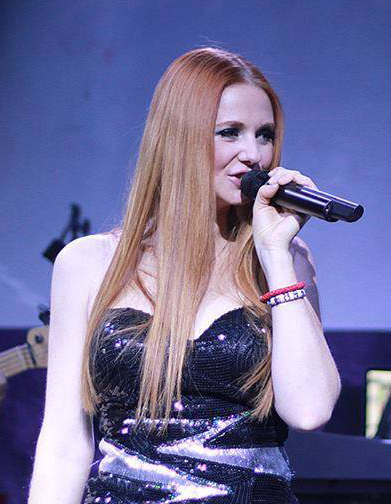 Lena Katina live in Mexico